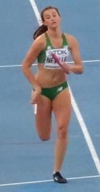 2016 IAAF World U20 Championships in Bydgoszcz, 4x100m relay women final